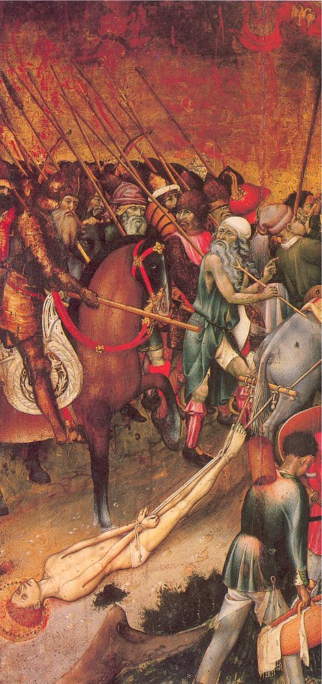 Saint George dragged through the city behind horses